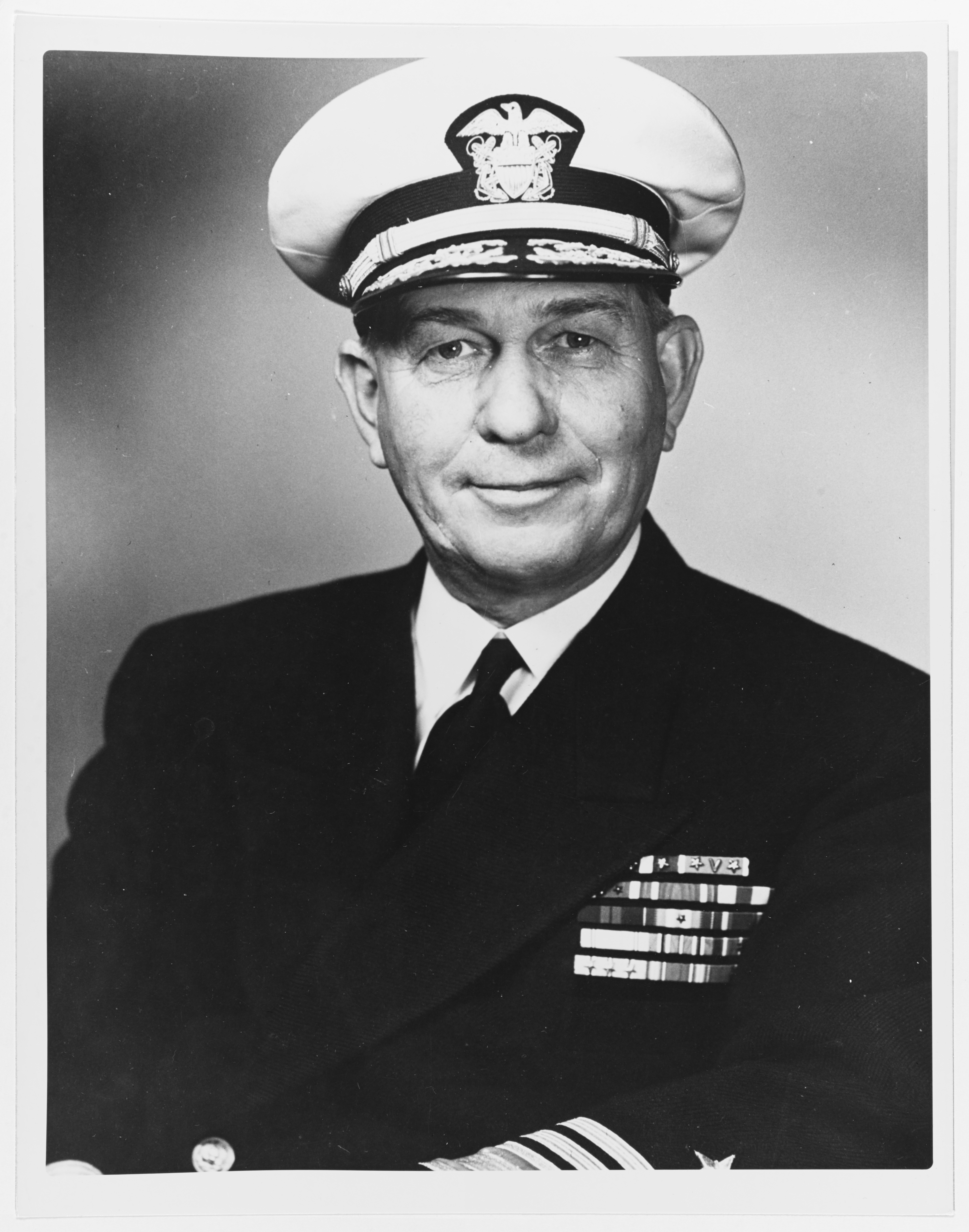 Laurance Toombs DuBose (May 21, 1893 - July 11, 1967) was a highly decorated officer in the United States Navy with the rank of four-star Admiral. A veteran of several conflicts, including both World Wars, he distinguished himself several times as Commanding officer of heavy cruiser USS Portland and Commander, Cruiser Division 13 in the Pacific theater of World War II and received three awards of Navy Cross, the United States Navy second-highest decoration awarded for valor in combat.